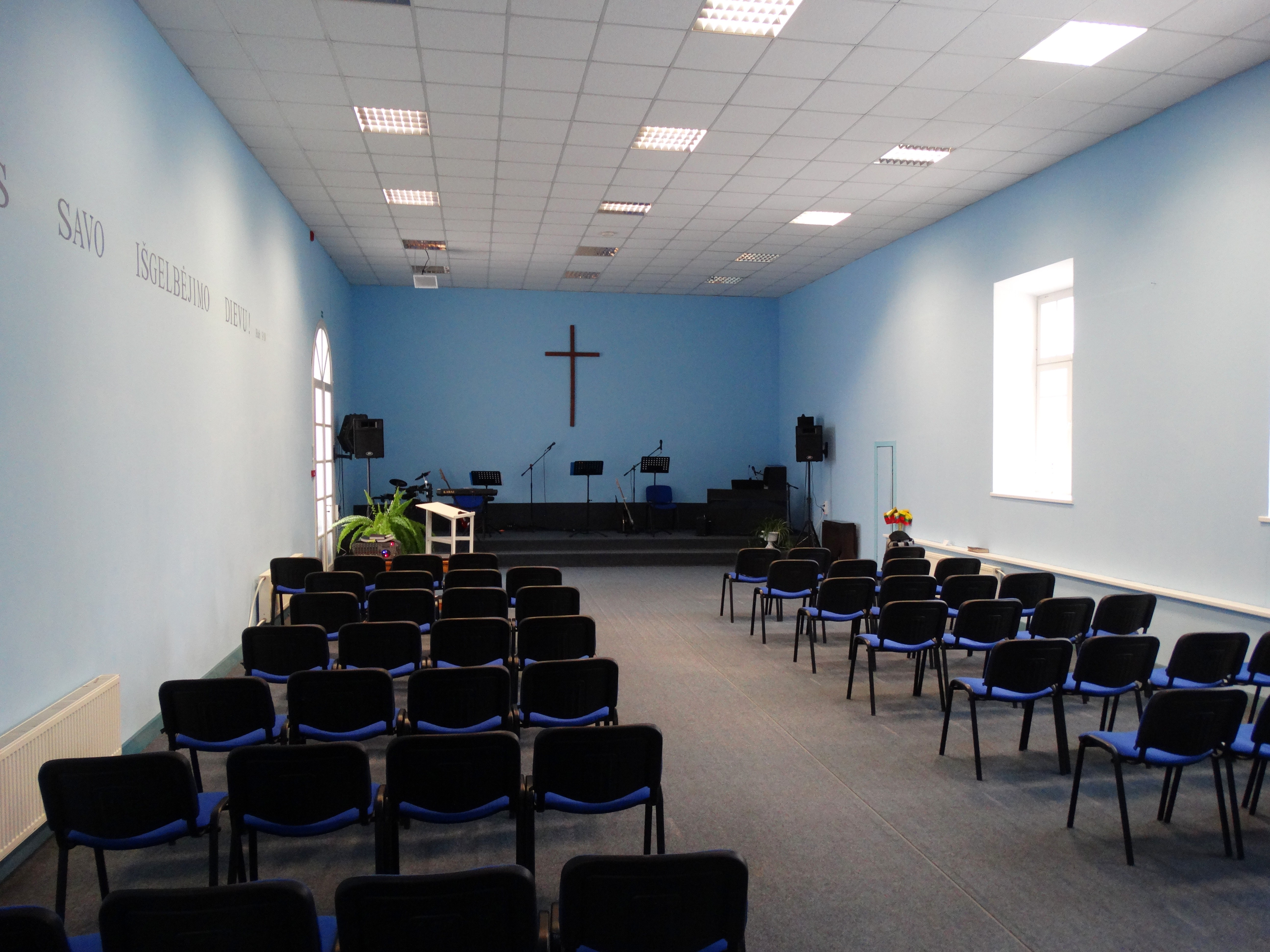 Baptist Church in Švenčionėliai, interior, Lithuania